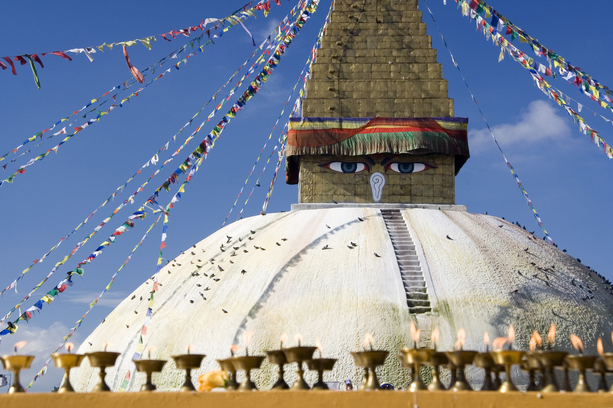 Bodnath Stupa in Kathmandu, Nepal.